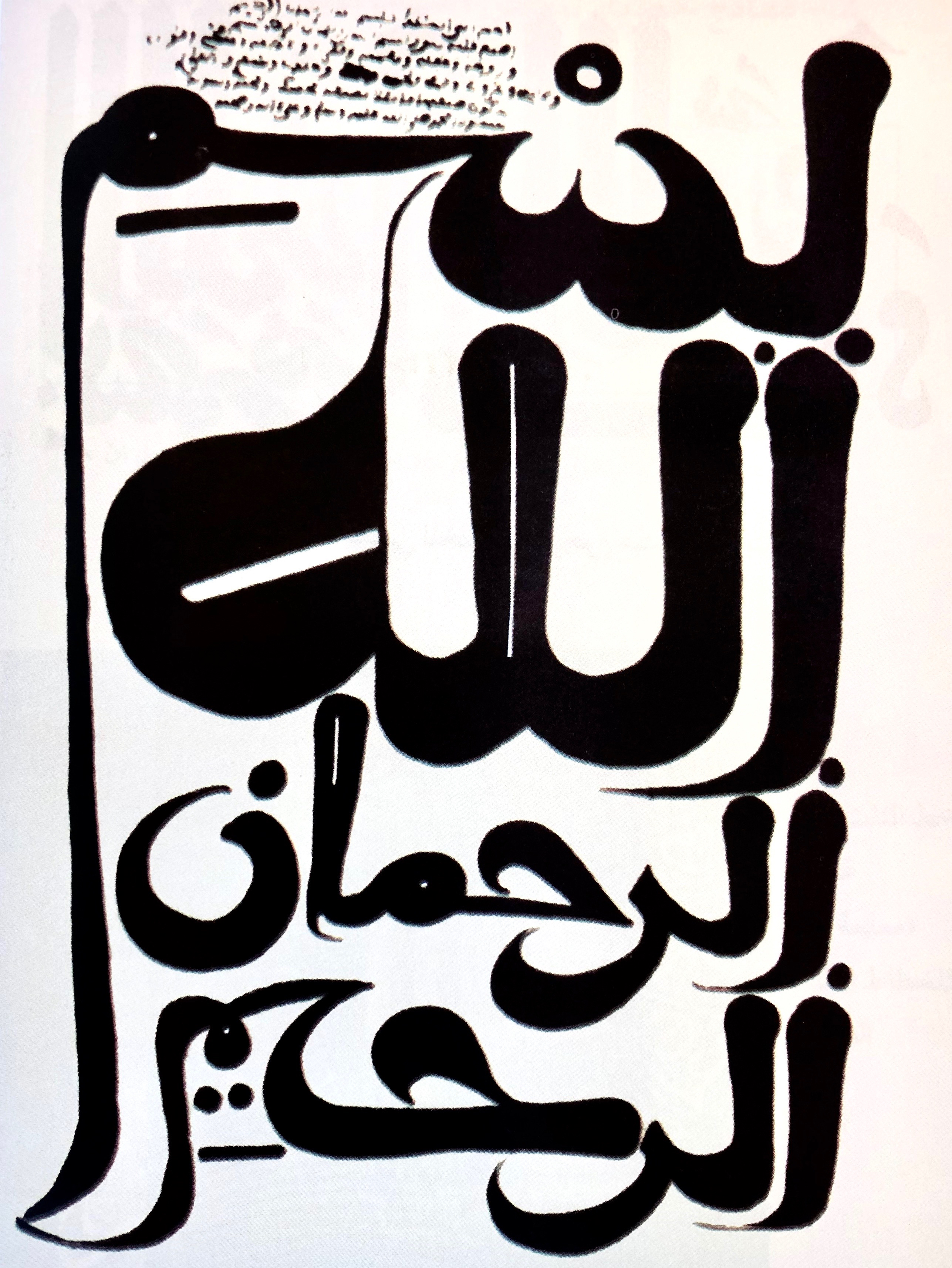 poster of a basmala by the master calligrapher Muhammad Bin Al-Qasim al-Qundusi in Qundusi script